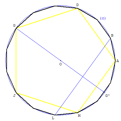 Pentadecagon